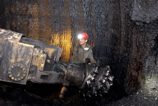 Mine Alekseevsckaya